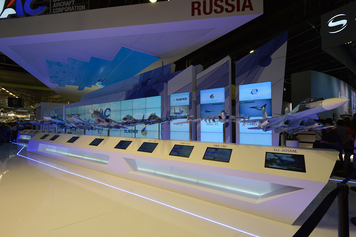 United Aircraft Corporation